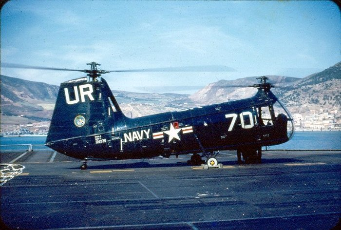 A Piasecki HUP-1 Retriever (BuNo 124926) of U.S. Navy utility squadron HU-2 Fleet Angels aboard the aircraft carrier USS Midway (CVB-41) in the early 1950s.